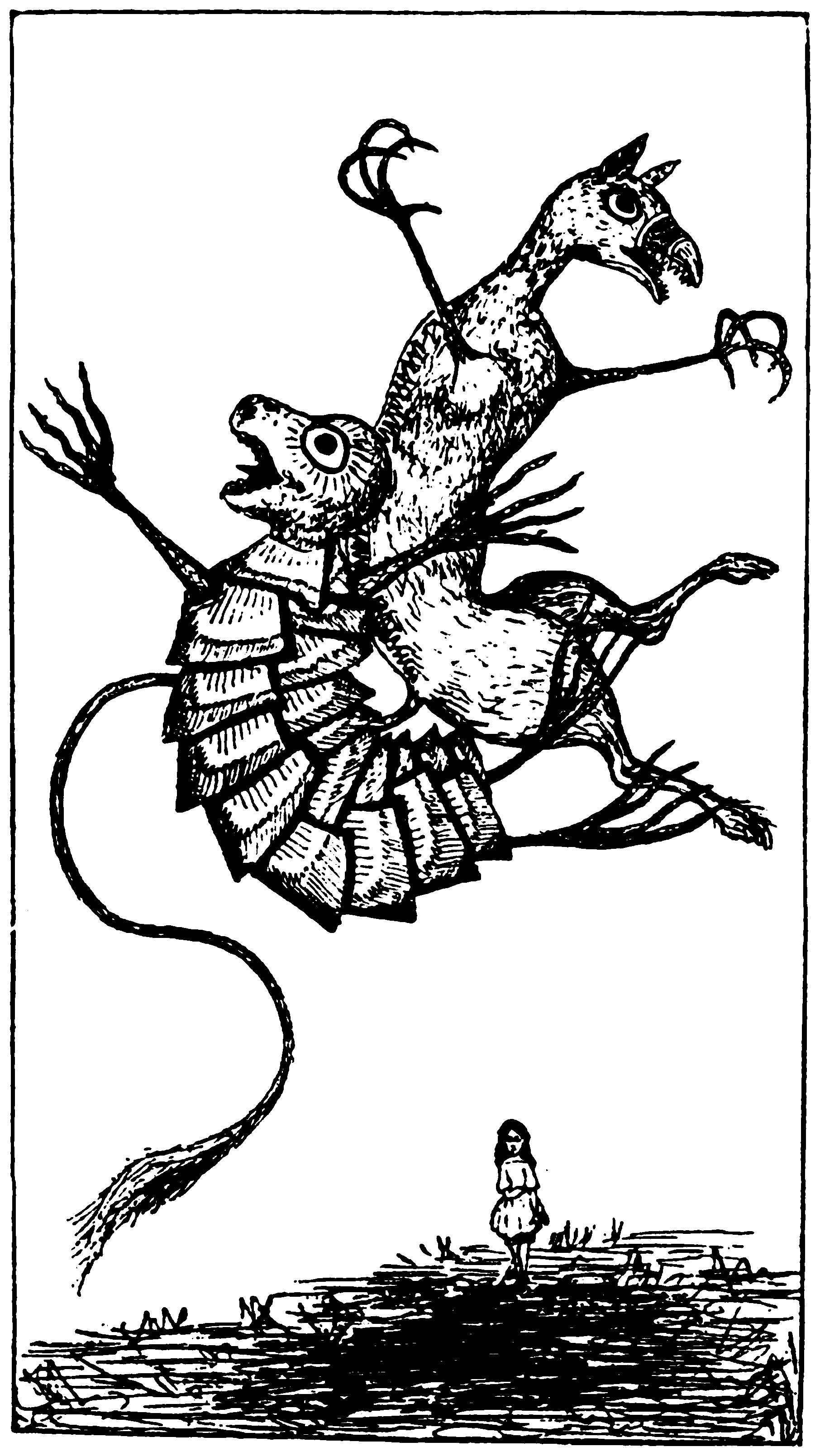 Illustration from page 82